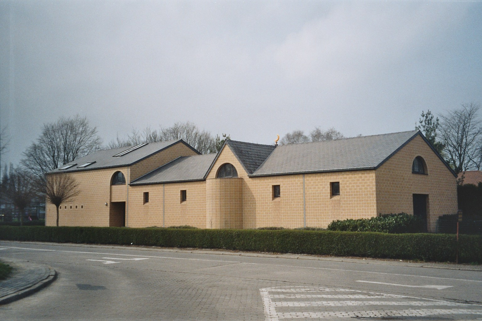 Mosque in the town of Lebbeke, Belgium